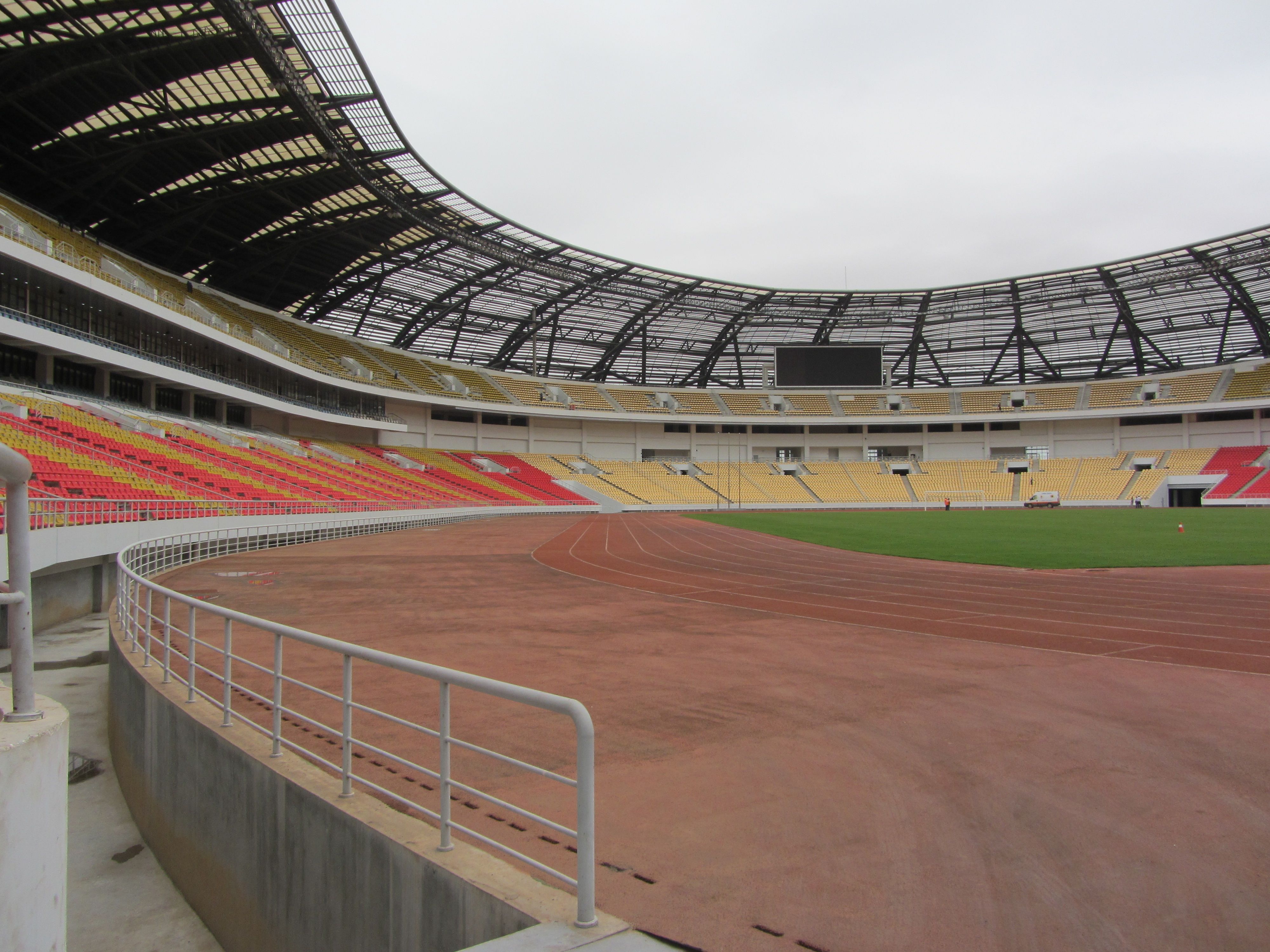 Interior of 11 November stadium in Luanda, Angola, with Tribunes and running track